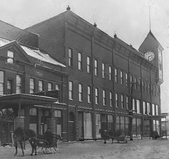 Braastad store, Ispeming MI c. 1904